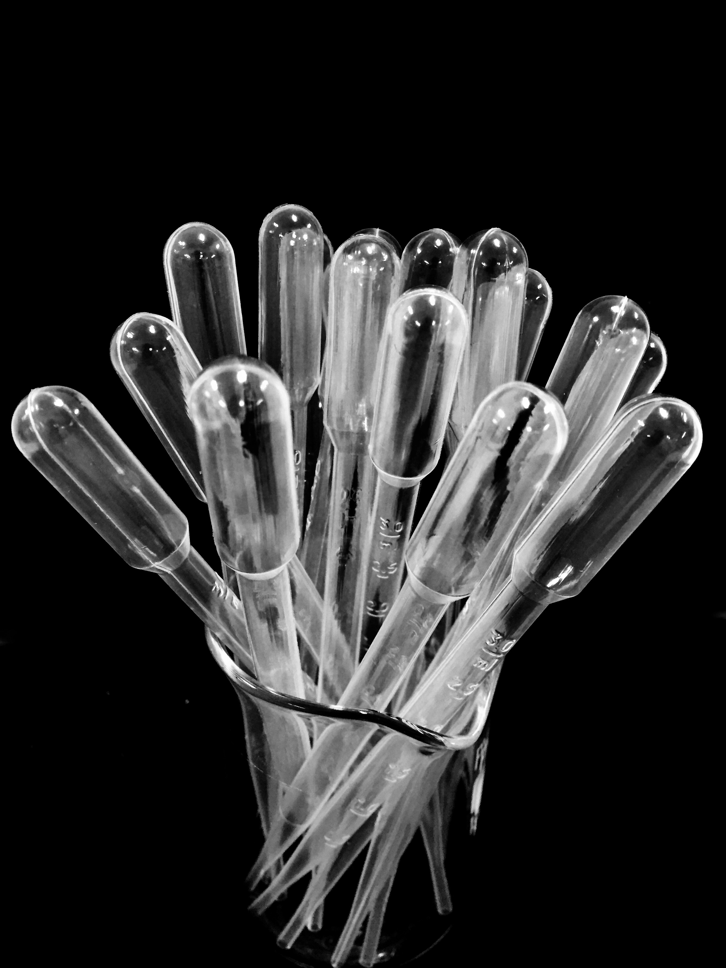 plastic transfer pipettes 3ml